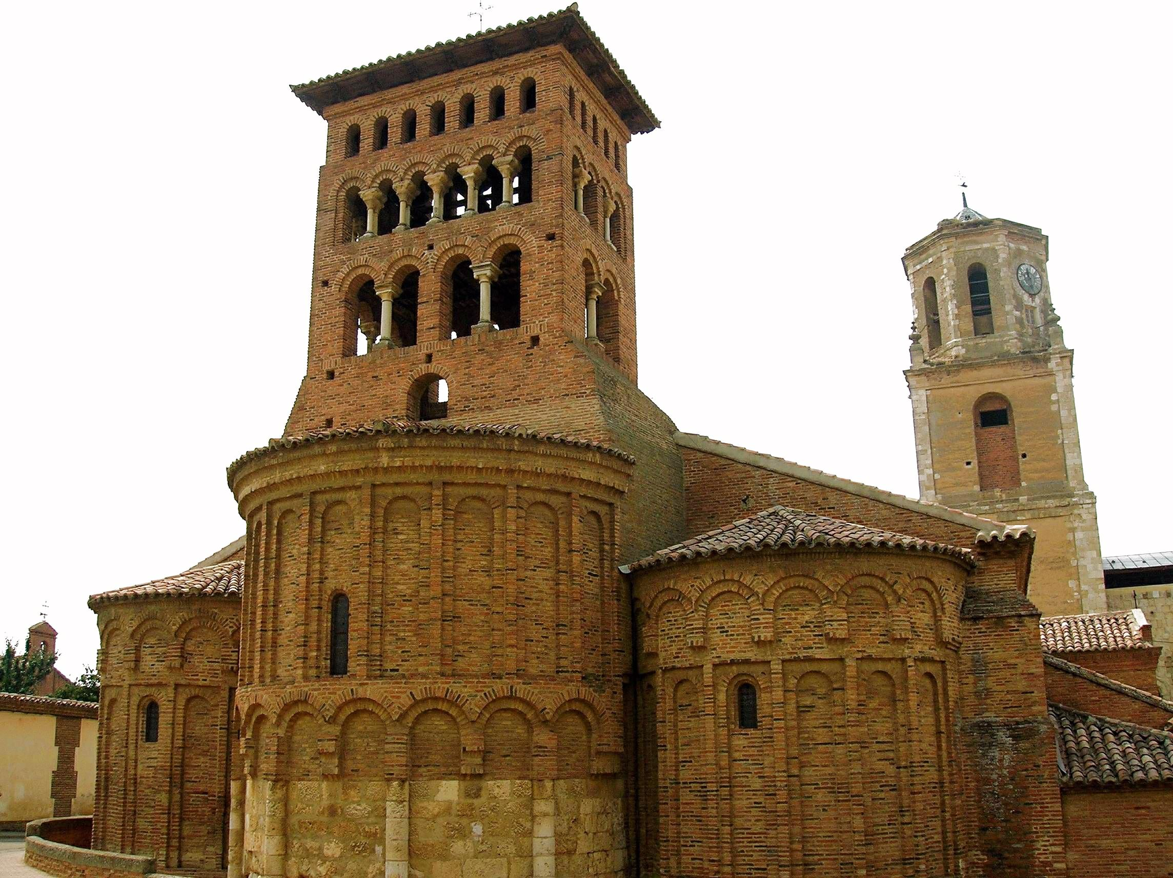 Iglesia románico-mudéjar de San Tirso, en Sahagún (León, España)